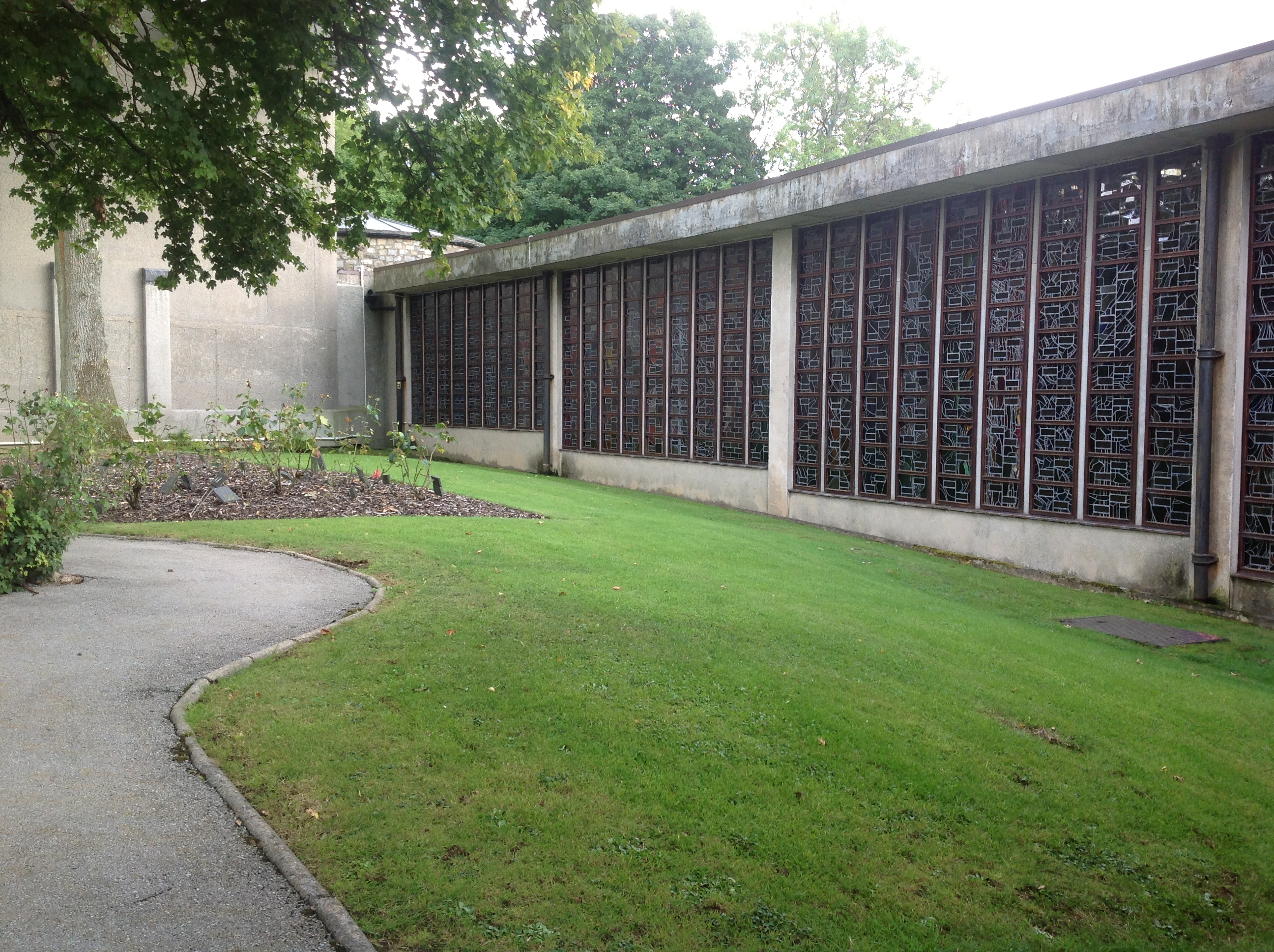 Capel Crallo at Coychurch Crematorium in Coychurch, Wales. Designed by Maxwell Fry and opened in 1970